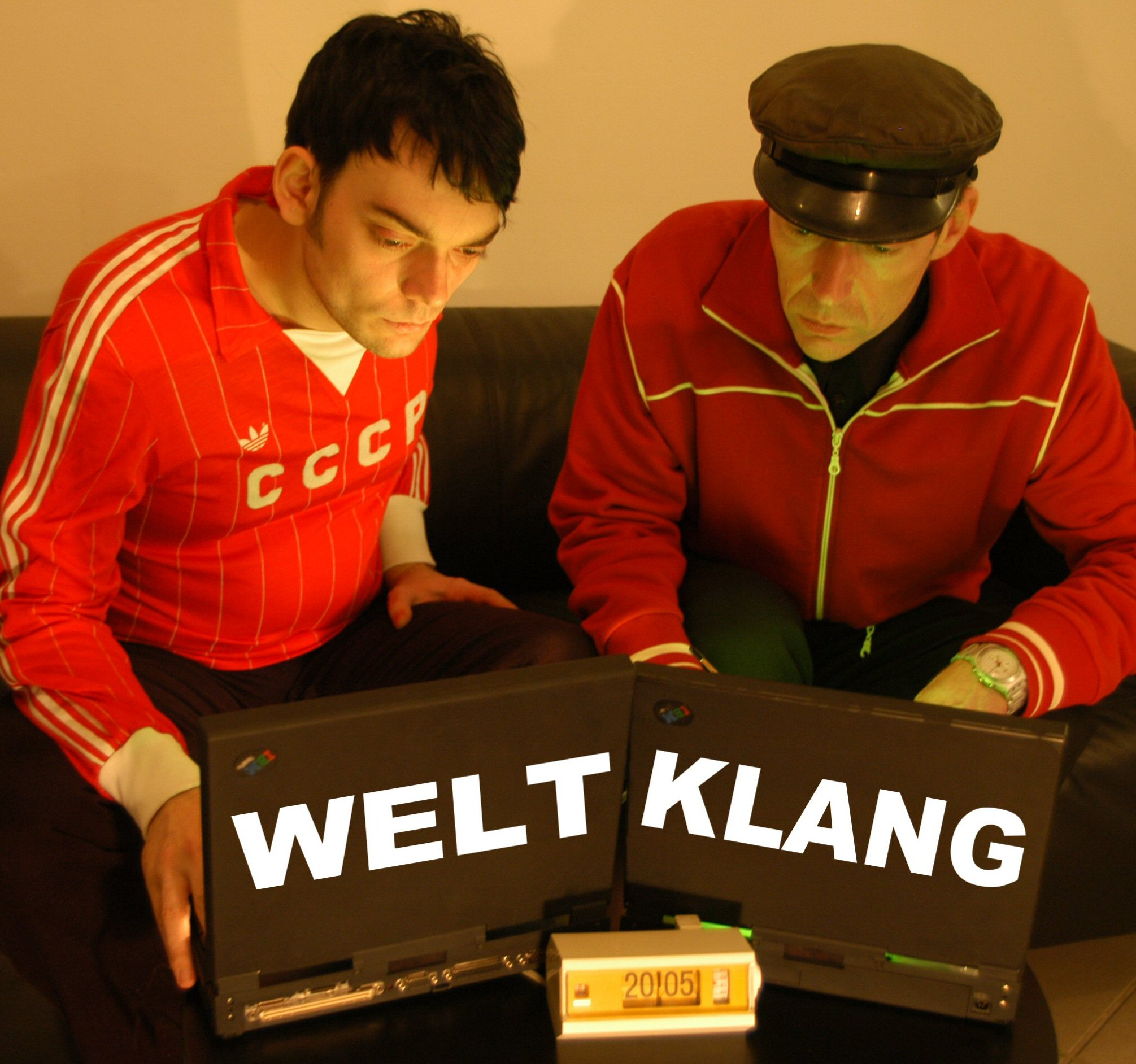 Photograph of the German Minimal Wave Band Weltklang